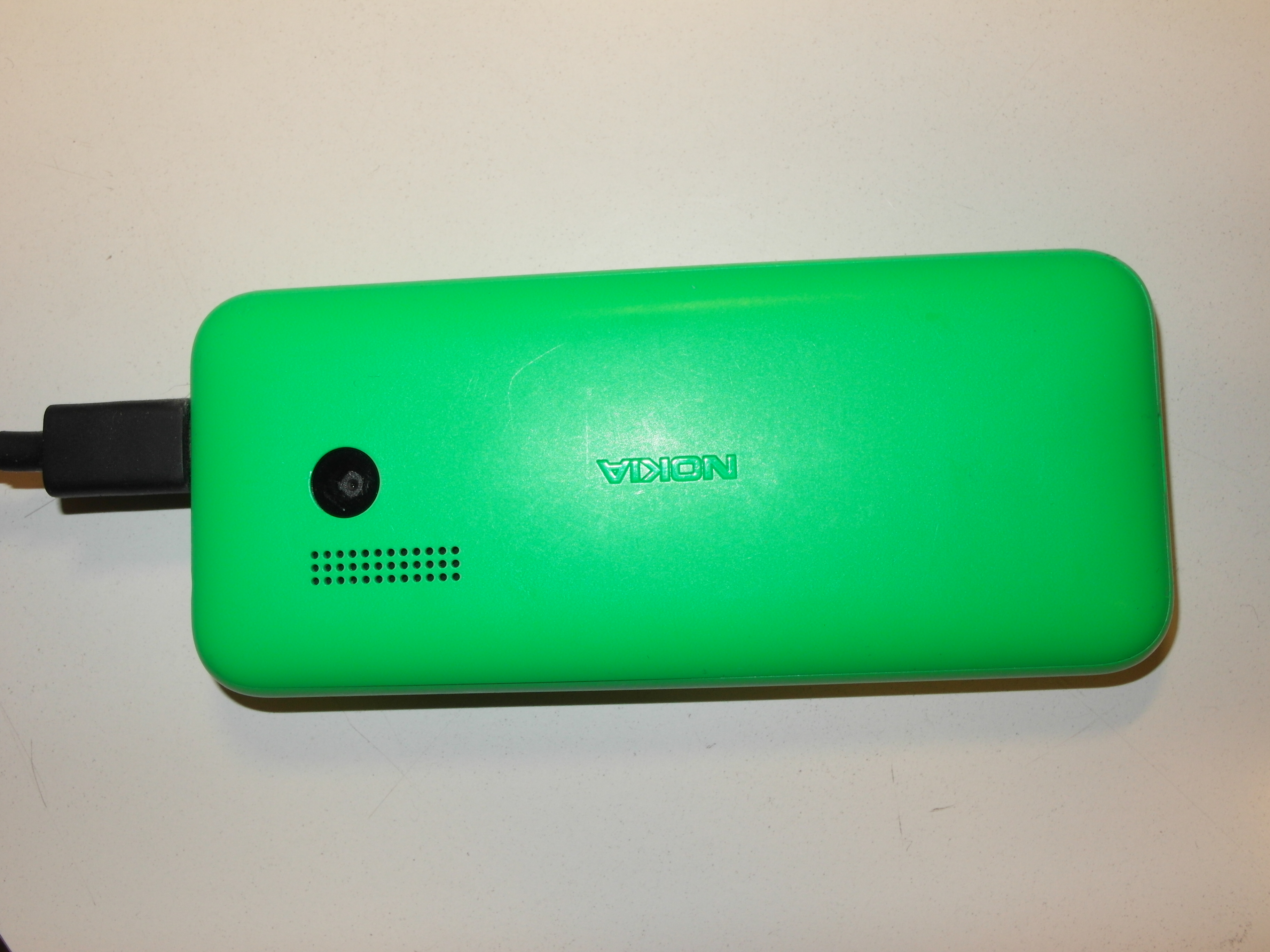 Rear view of a Nokia 215 cell phone